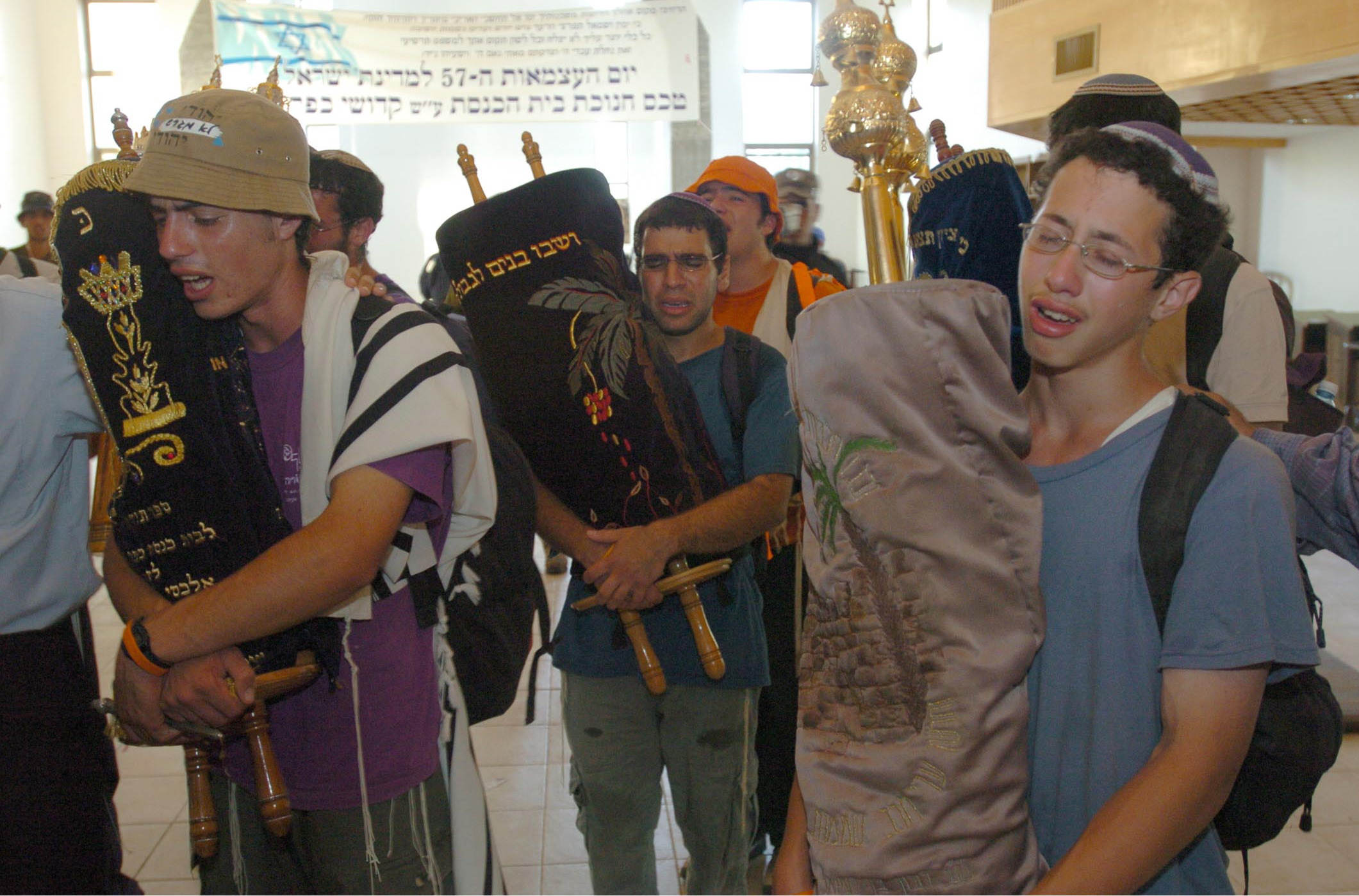 August 18, 2005. Soldiers remove holy books from the synagogue in the Israeli community Kfar Darom. The evacuation of Kfar Darom was part of the Gaza Disengagement, which occurred during the summer of 2005.